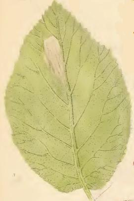 Stainton’s Natural History of the Tineina (1855–1873): Phyllonorycter lantanella mined Viburnum lantana leaf